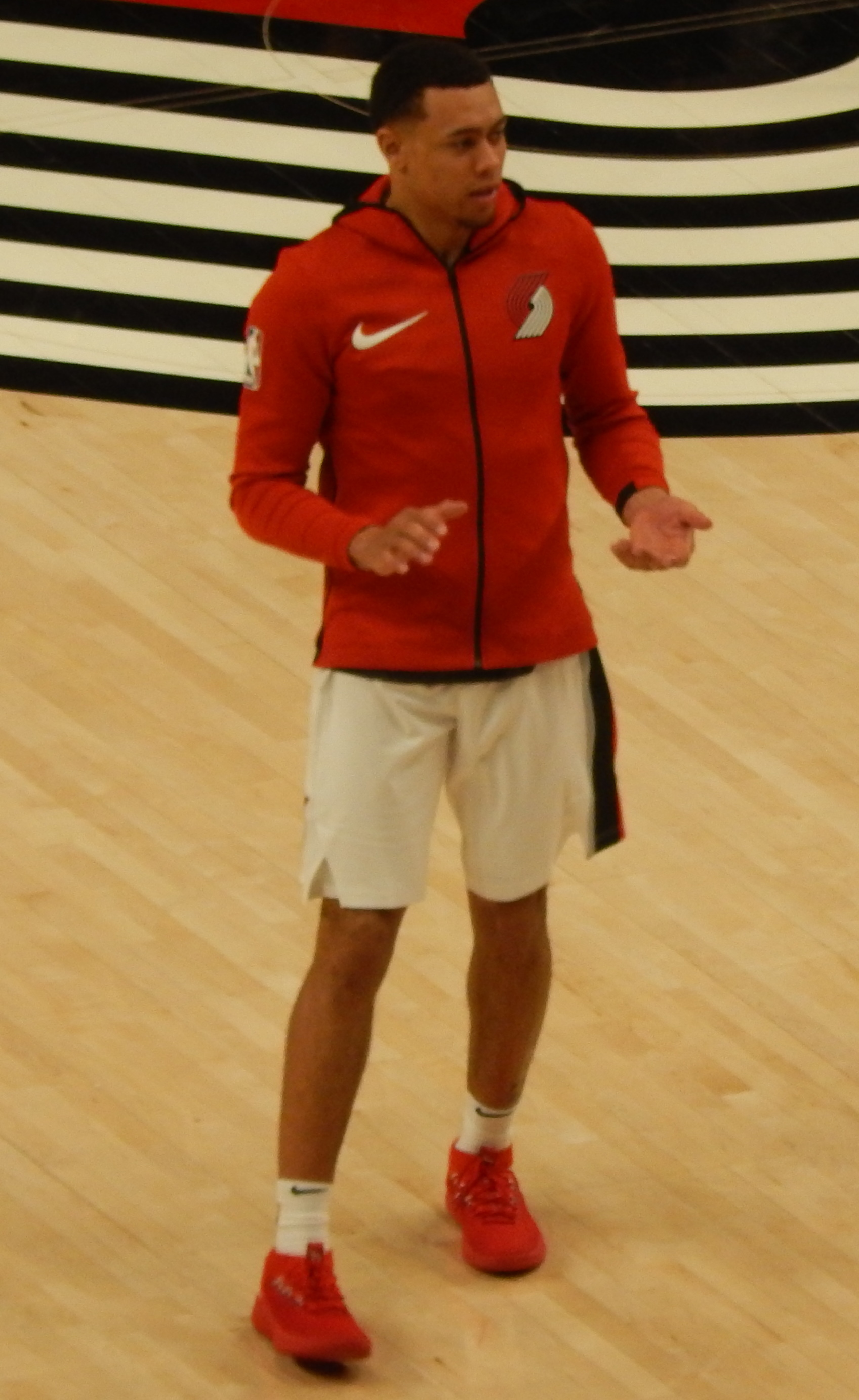 Wade Baldwin IV #2 of the Portland Trail Blazers against the New York Knicks on March 6, 2018 at Moda Center in Portland, Oregon.